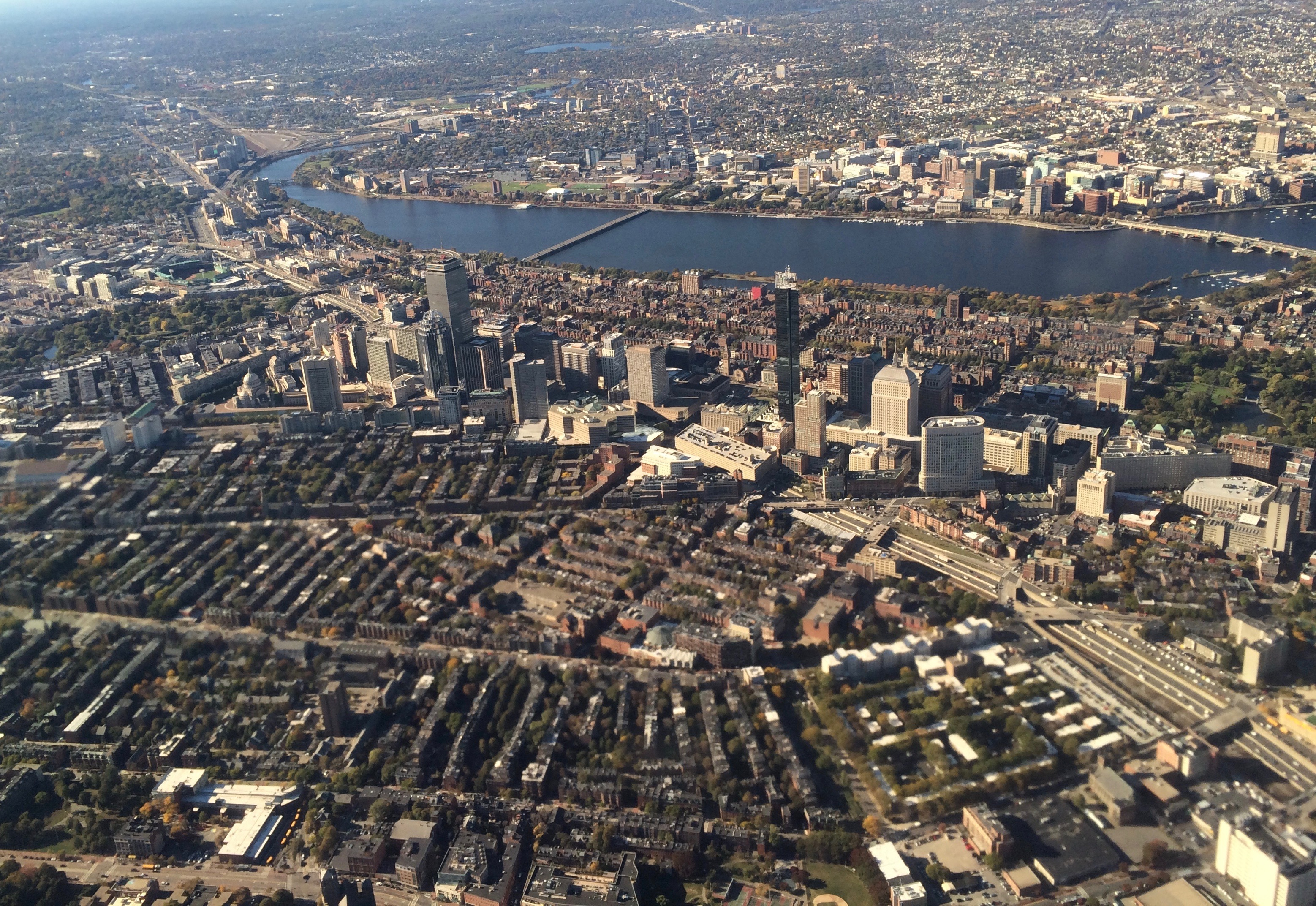 An aerial view of the Back Bay and surrounding areas, showing the High Spine